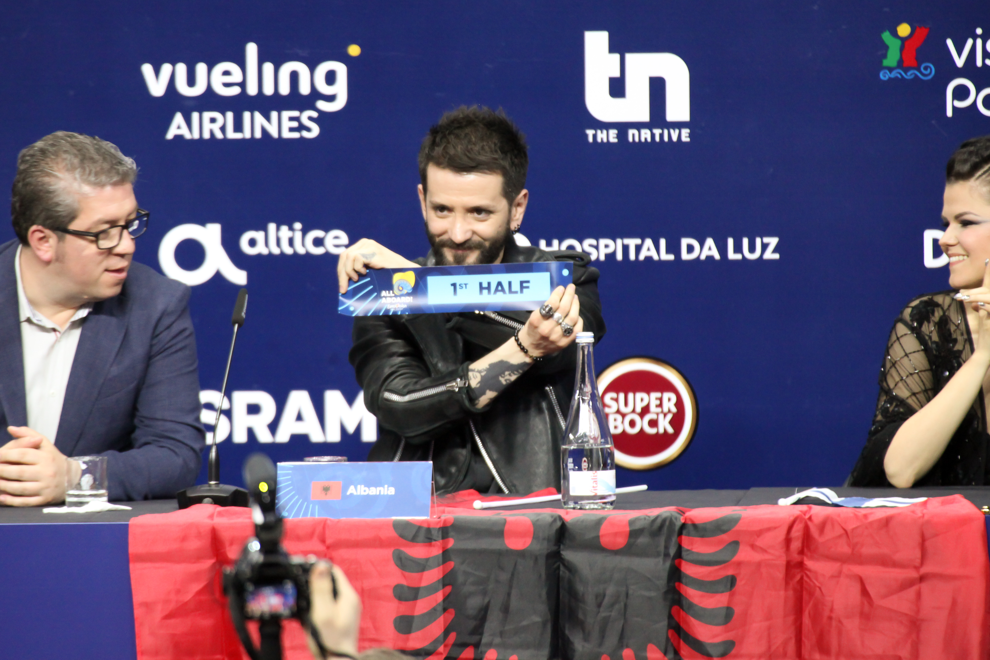 At the 2018 Grand Final allocation draw